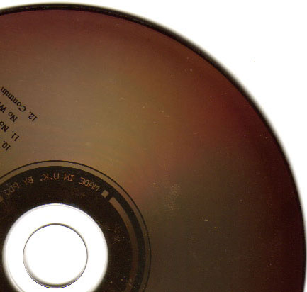 Scan of a CD from my collection that is affected by CD bronzing. This CD was manufactured in 1989; the scan was made in 2007. At the time of the scan, the disc was still playable in a standard audio CD player. Notice the "Made in U.K. by PDO" etching (in reverse) that can be found on many affected discs.